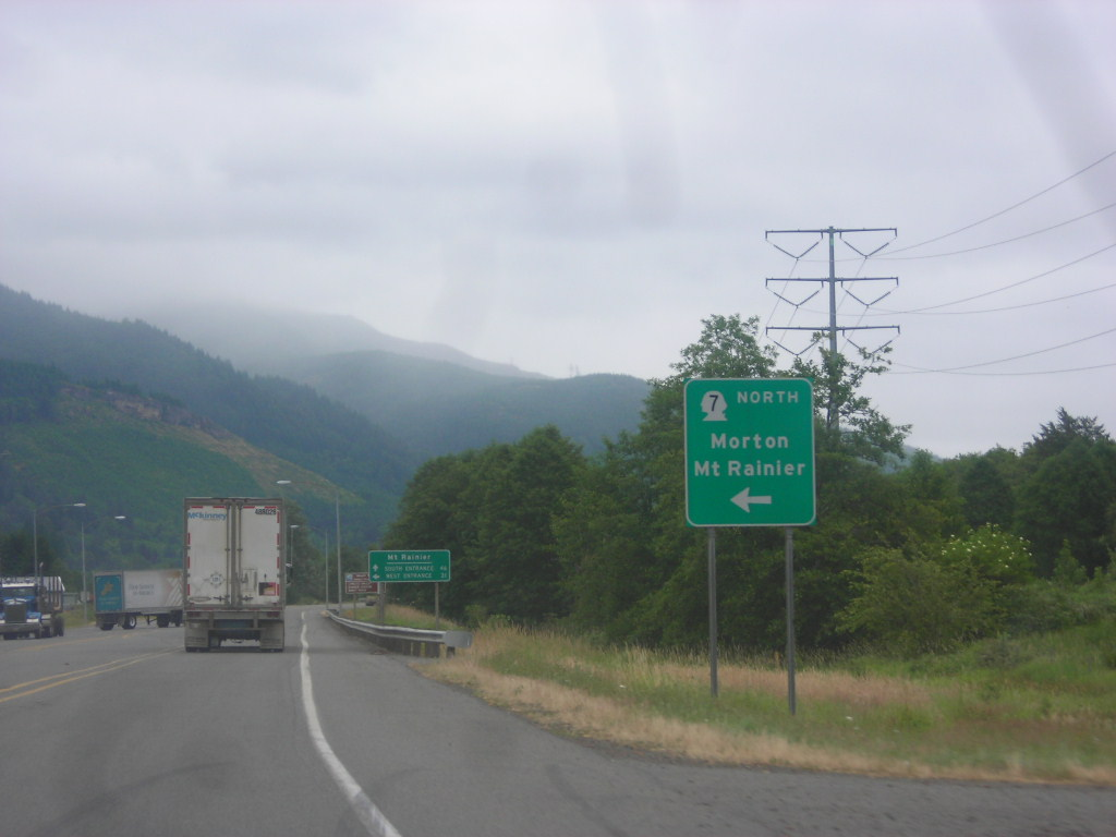 U.S. Route 12 at the southern terminus of Washington State Route 7 in Morton; Original description: 071206 659